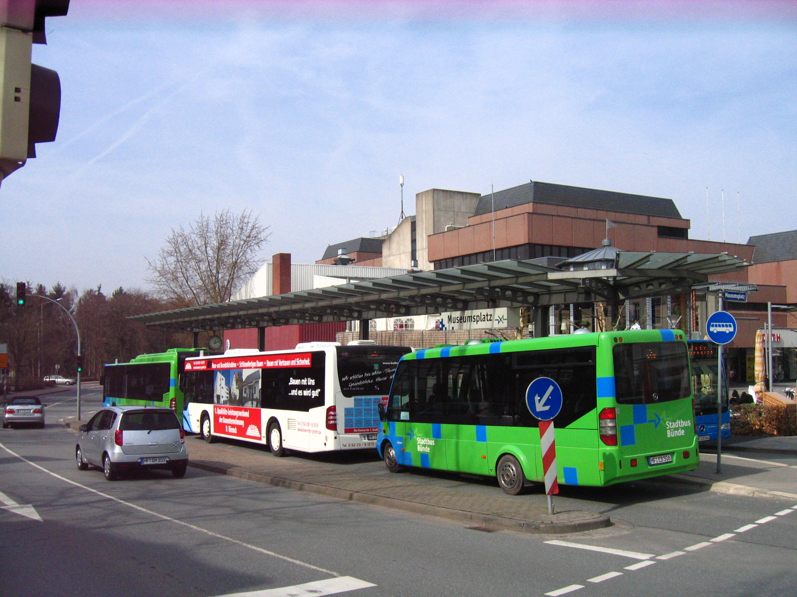 in Bünde, District of Herford, North Rhine-Westphalia, Germany.